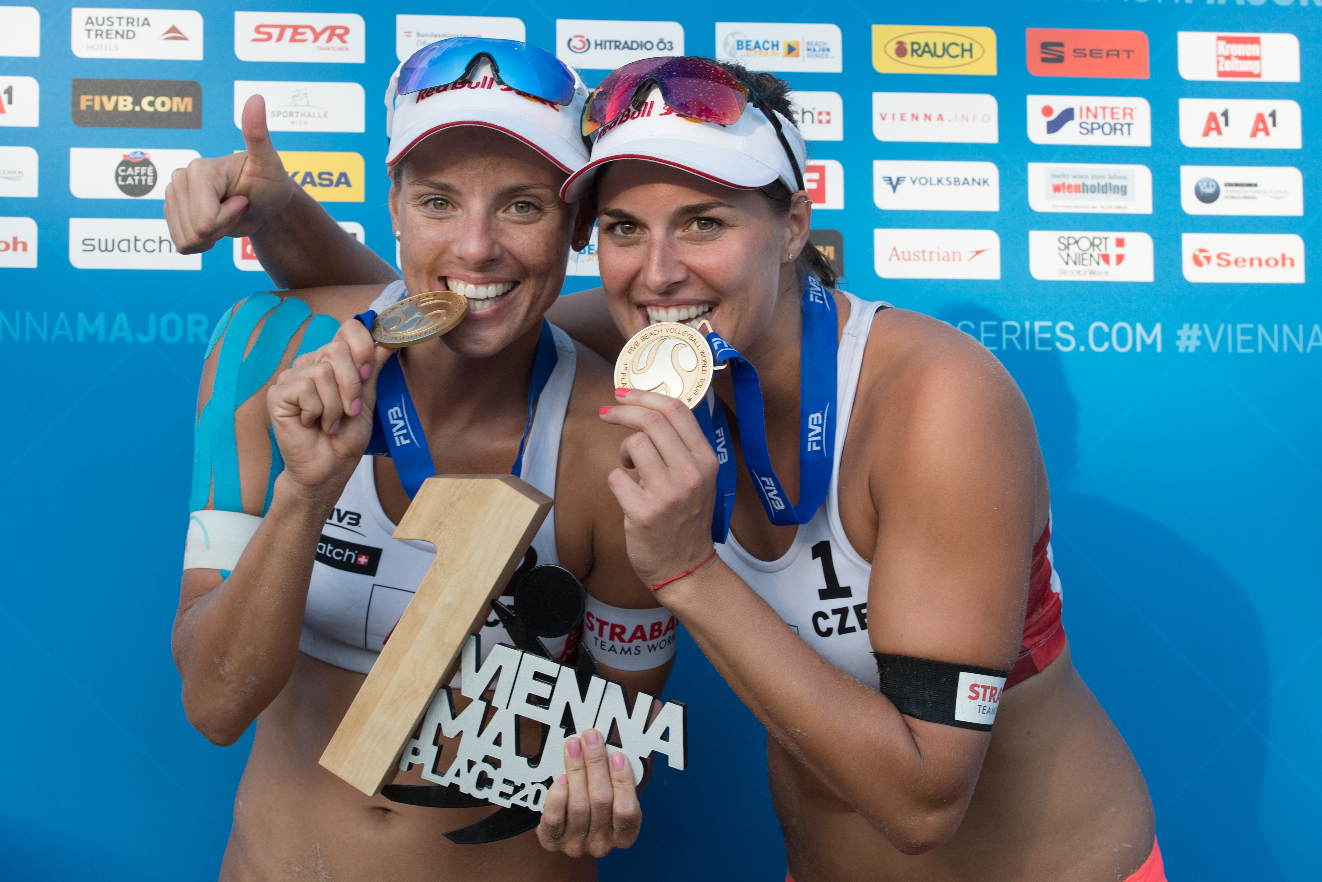 VIENNA, AUSTRIA - AUGUST 04: Marketa Slukova and Barbora Hermannova of the Czech Republic during the women's award ceremony on day four of the FIVB Beach Volleyball World Tour Major Series Vienna on Danube Island on August 04, 2018 in Vienna, Austria.